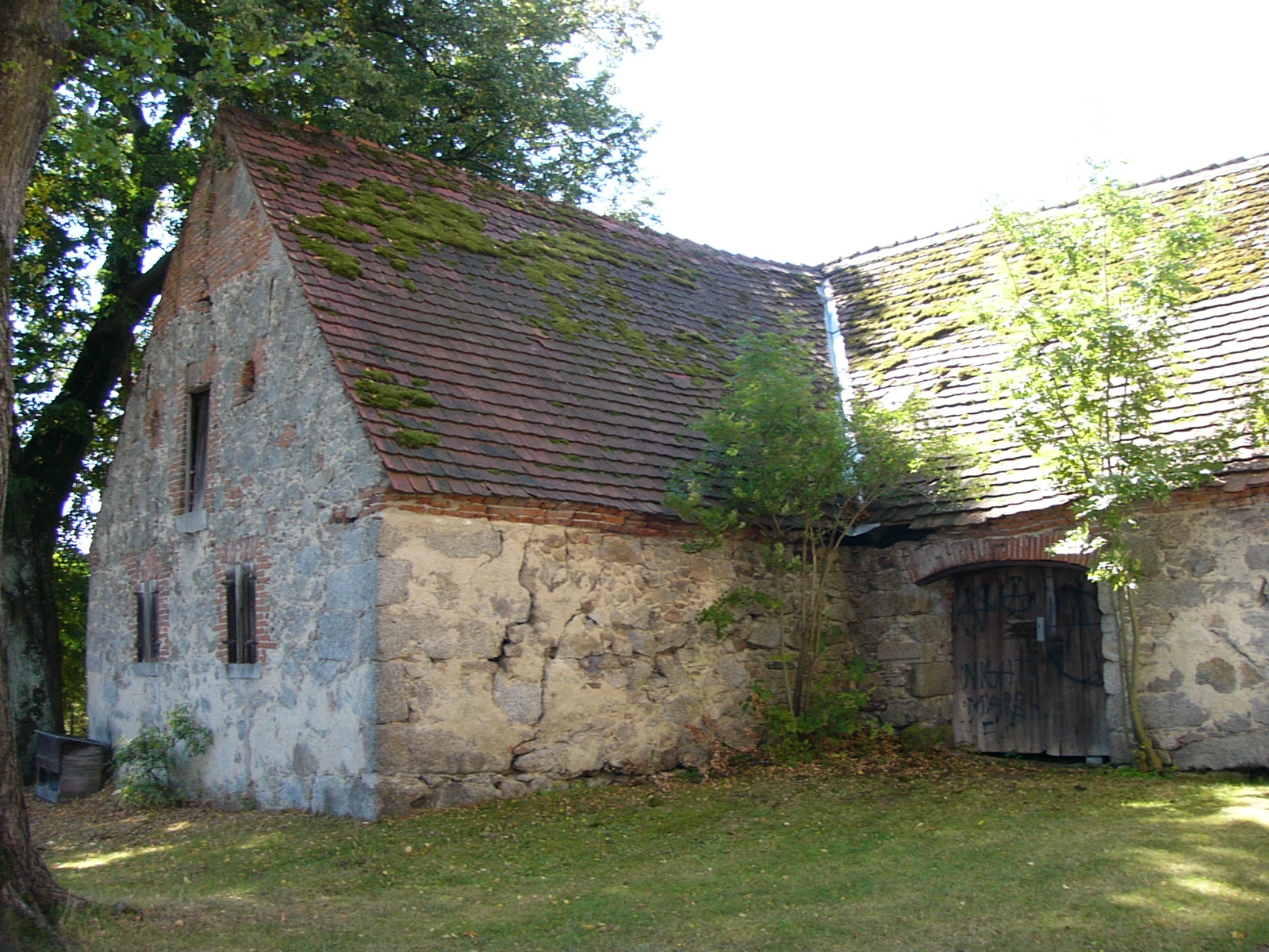 Schönkirch bei Plößberg